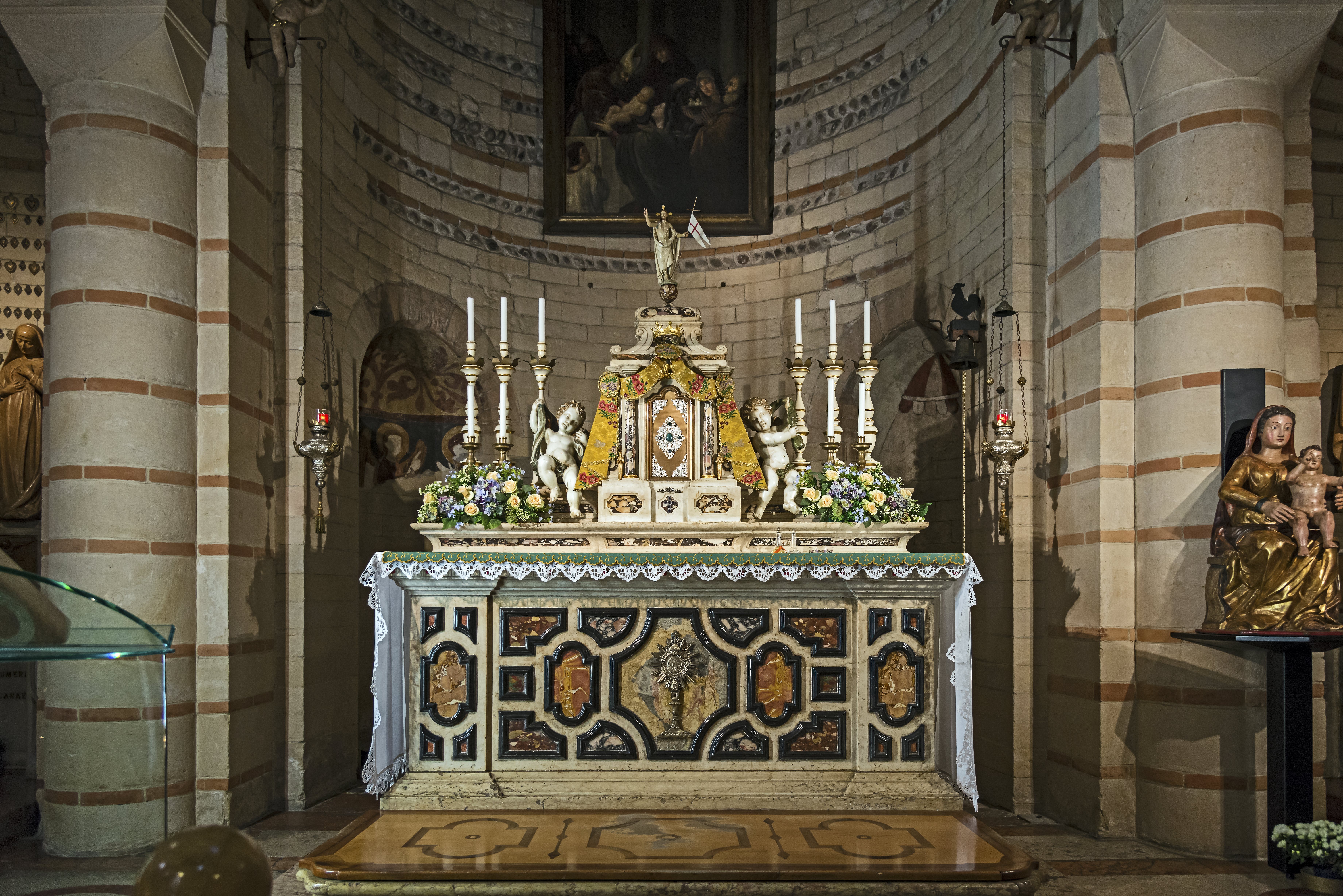 Santa Maria Antica in Verona. The church was built in 1185 in Romanesque style. High Altar.